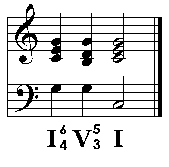 Created by the author to illustrate analytical notation of chord inversions, as well as a common cadential progression. See: File:Common Cadential Progression Alt.png and File:Common cadential progression alt.mid